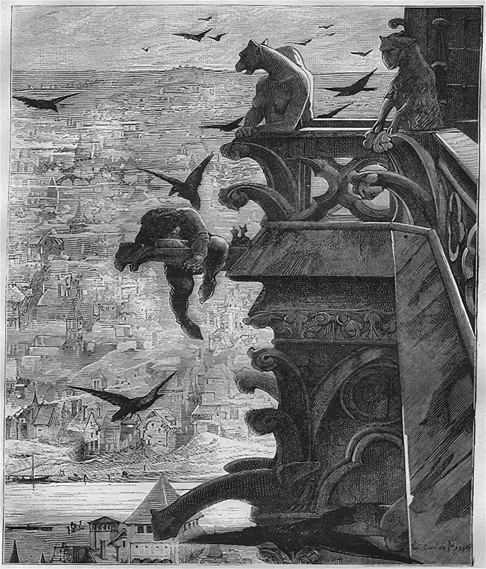 Drawing of the Hunchback of Notre Dame, showing the recently restored galerie des chimères.